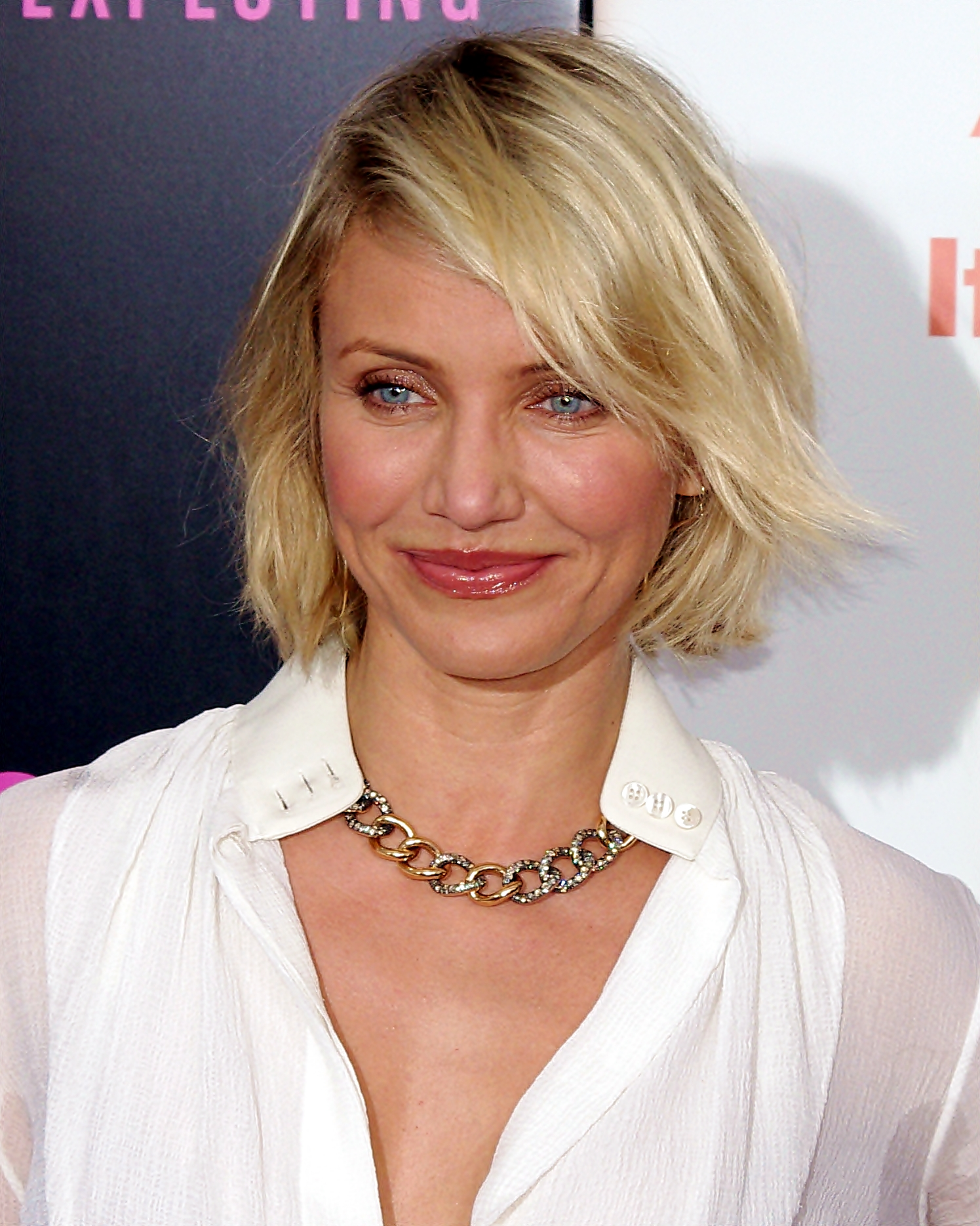 Cameron Diaz at the 2012 premiere of What to Expect When You're Expecting in New York